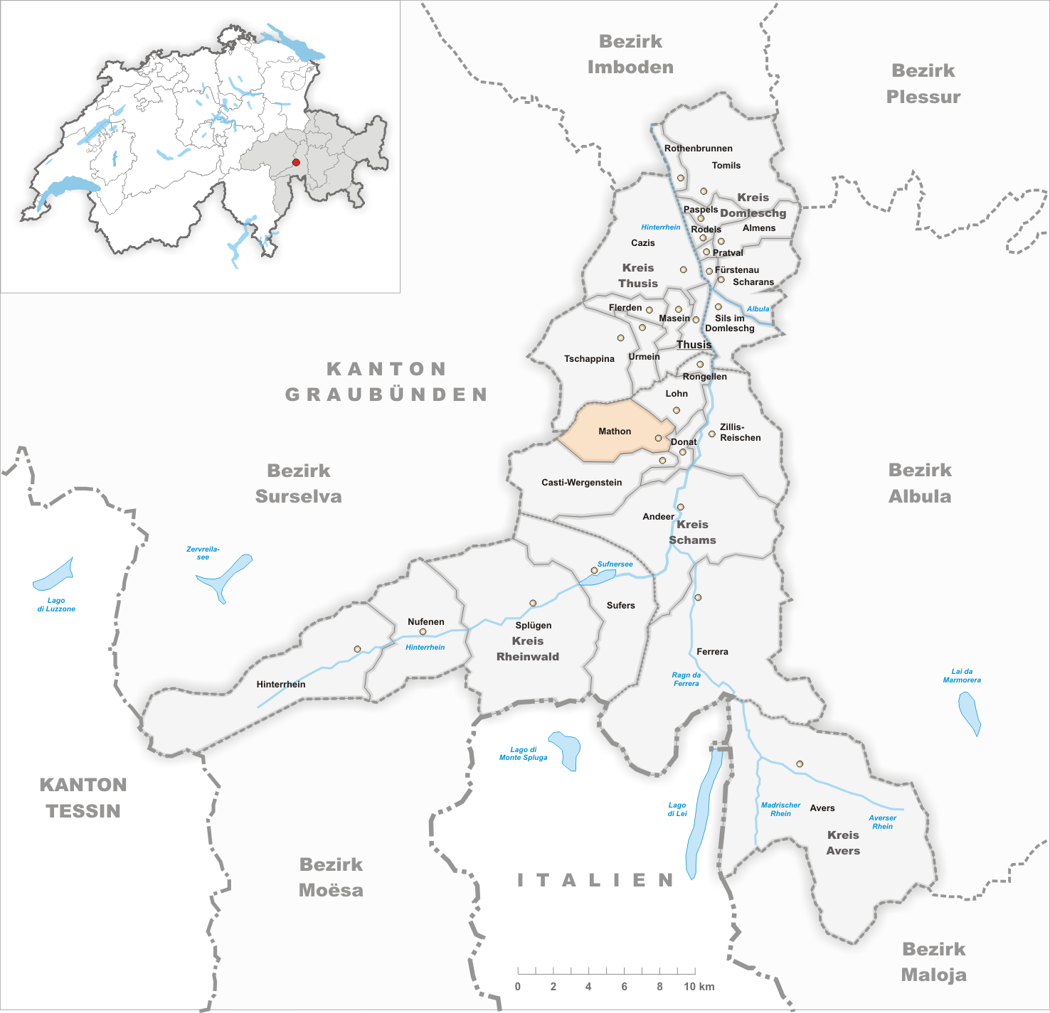 Municipality Mathon